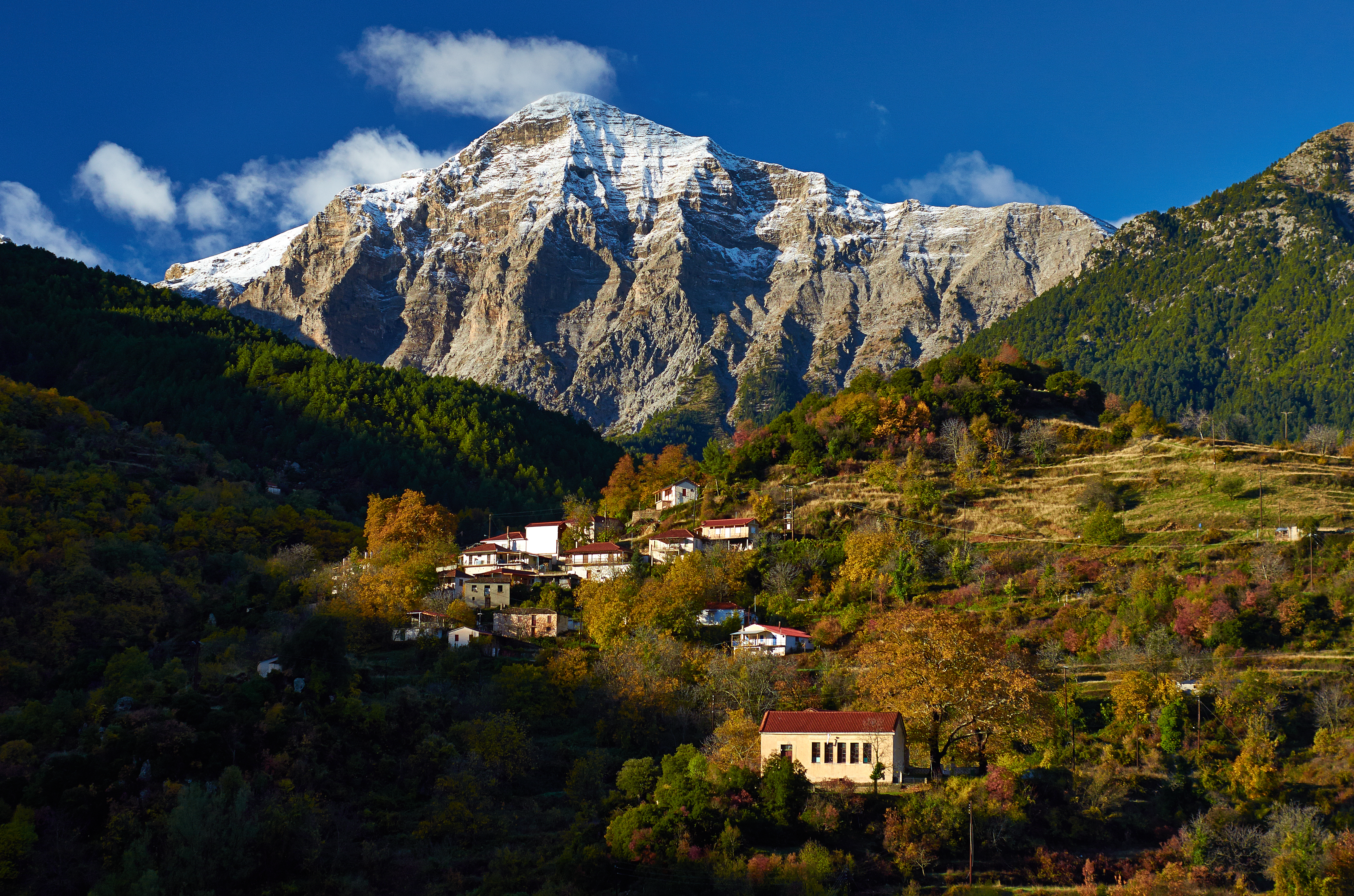 This is a view on "Neraidorachi" peak of mountain Chelmos, In the foreground you can see the old School Building of Village Mesorougi, The photos is capture in the late autumn.